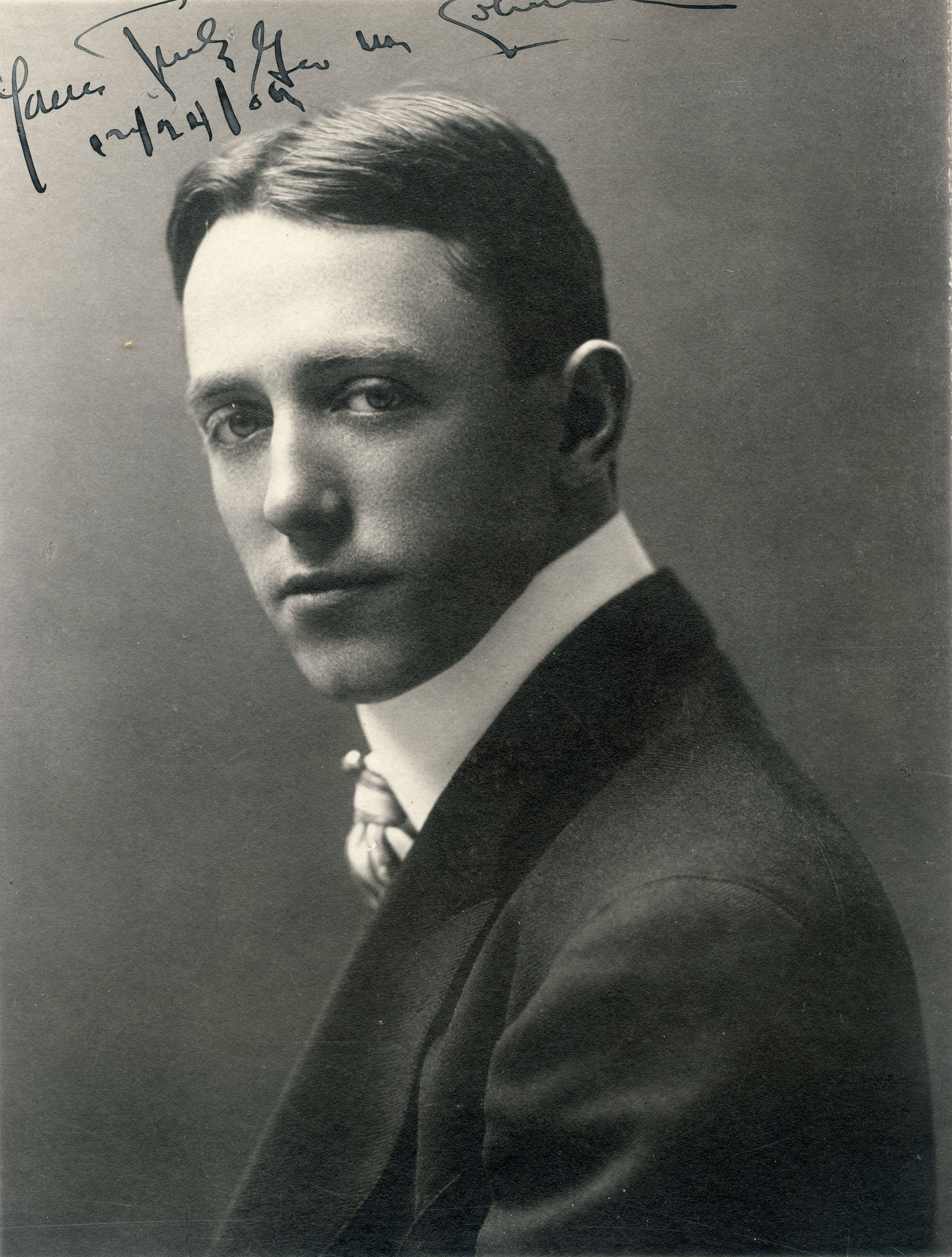 George M. Cohan Subjects: actors